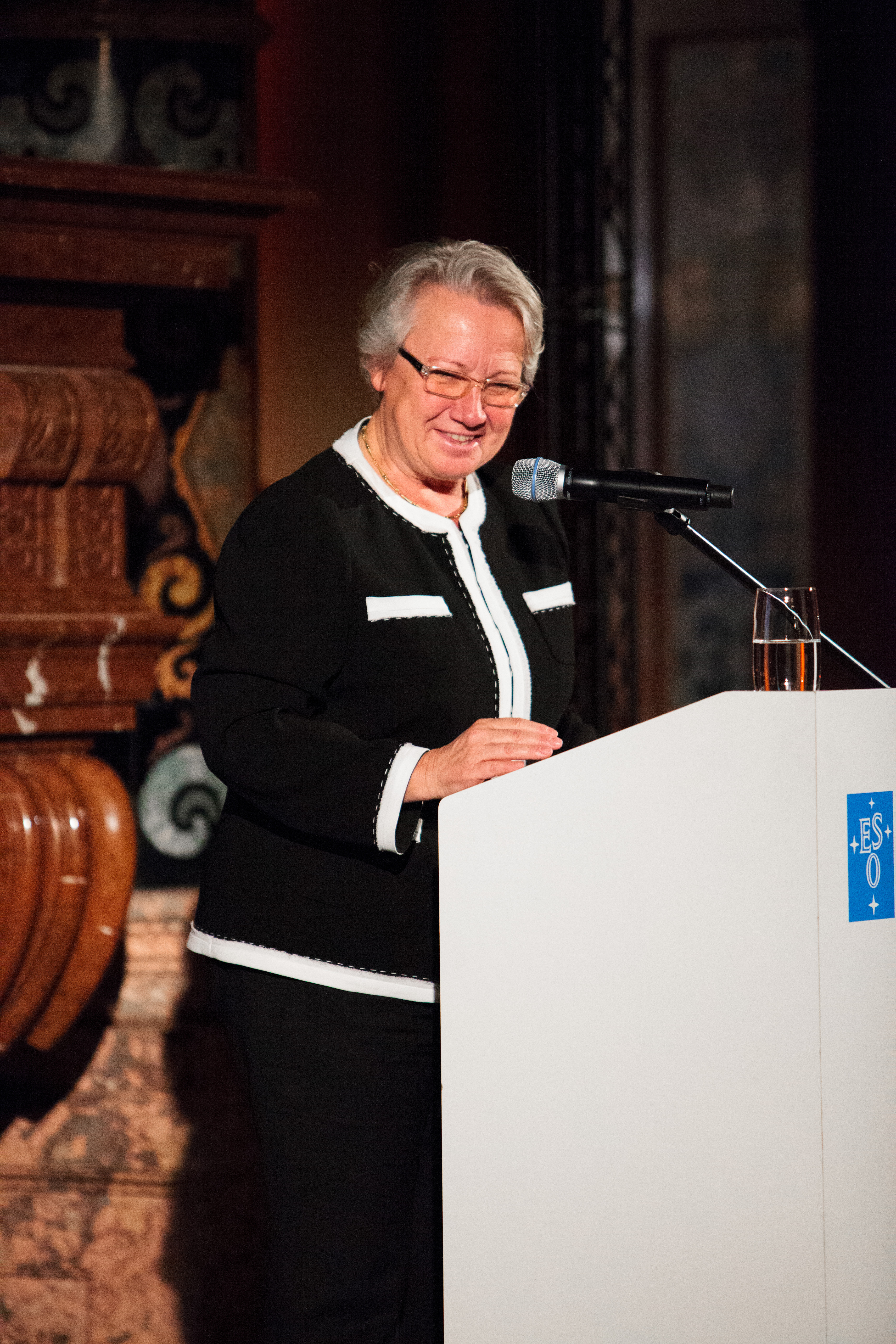 Prof. Dr Annette Schavan, German Federal Minister for Education and Research. Taken during the European Southern Observatory 50th anniversary gala, held in the Residenz, Munich, on October 11, 2012